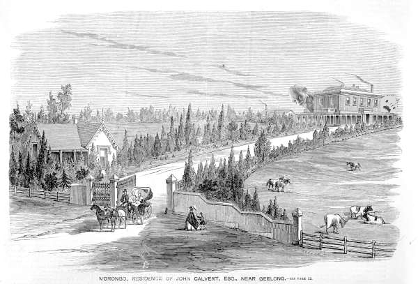 Morongo, residence of John Calvert, esq., near Geelong.